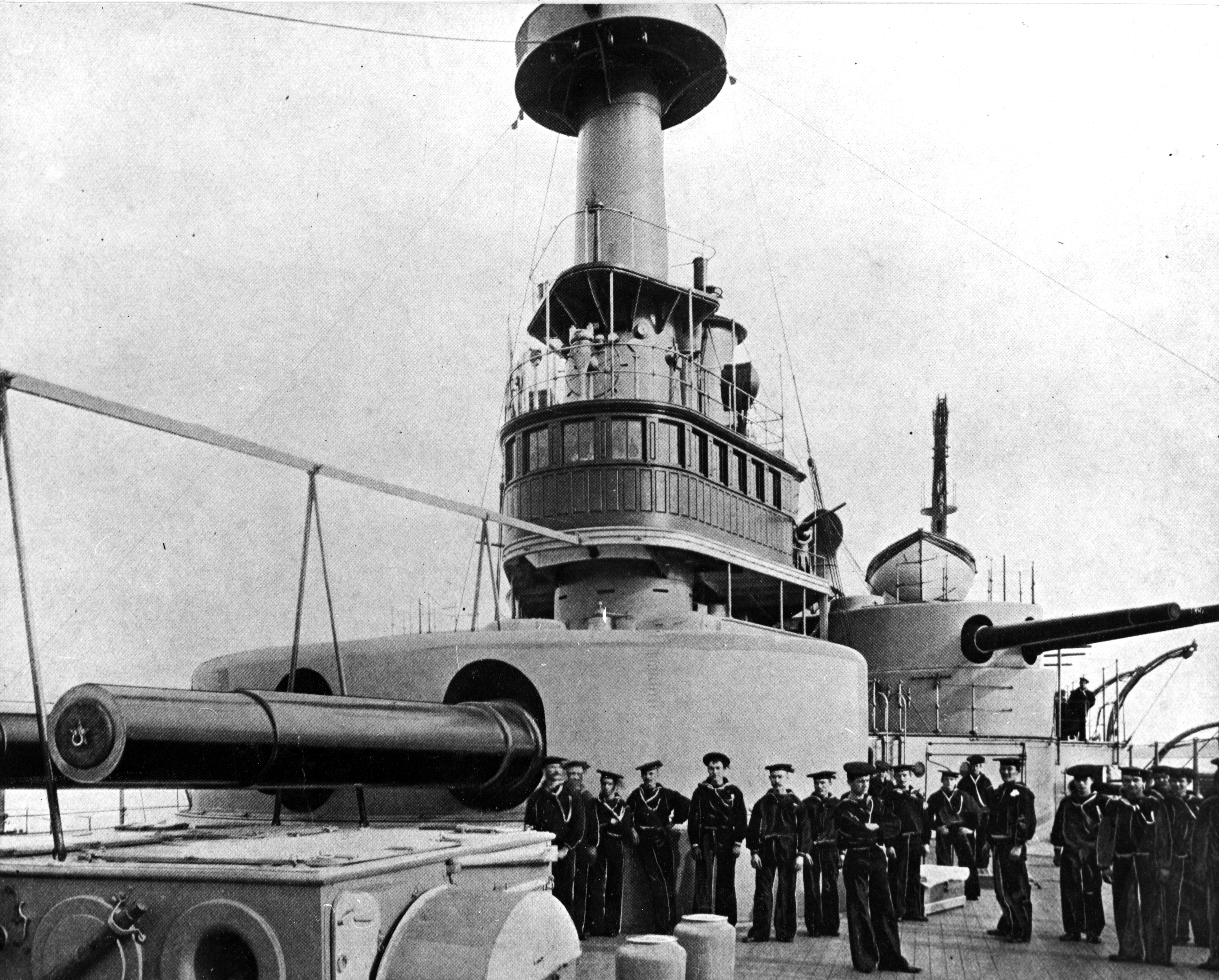 View on the forecastle, circa 1897, showing some of her crewmen, her pilothouse, forward 13-inch gun turret and forward port 8- inch gun turret. Halftone photograph, copied from the contemporary publication Uncle Sam's Navy, 1898. U.S. Naval History and Heritage Command Photograph.